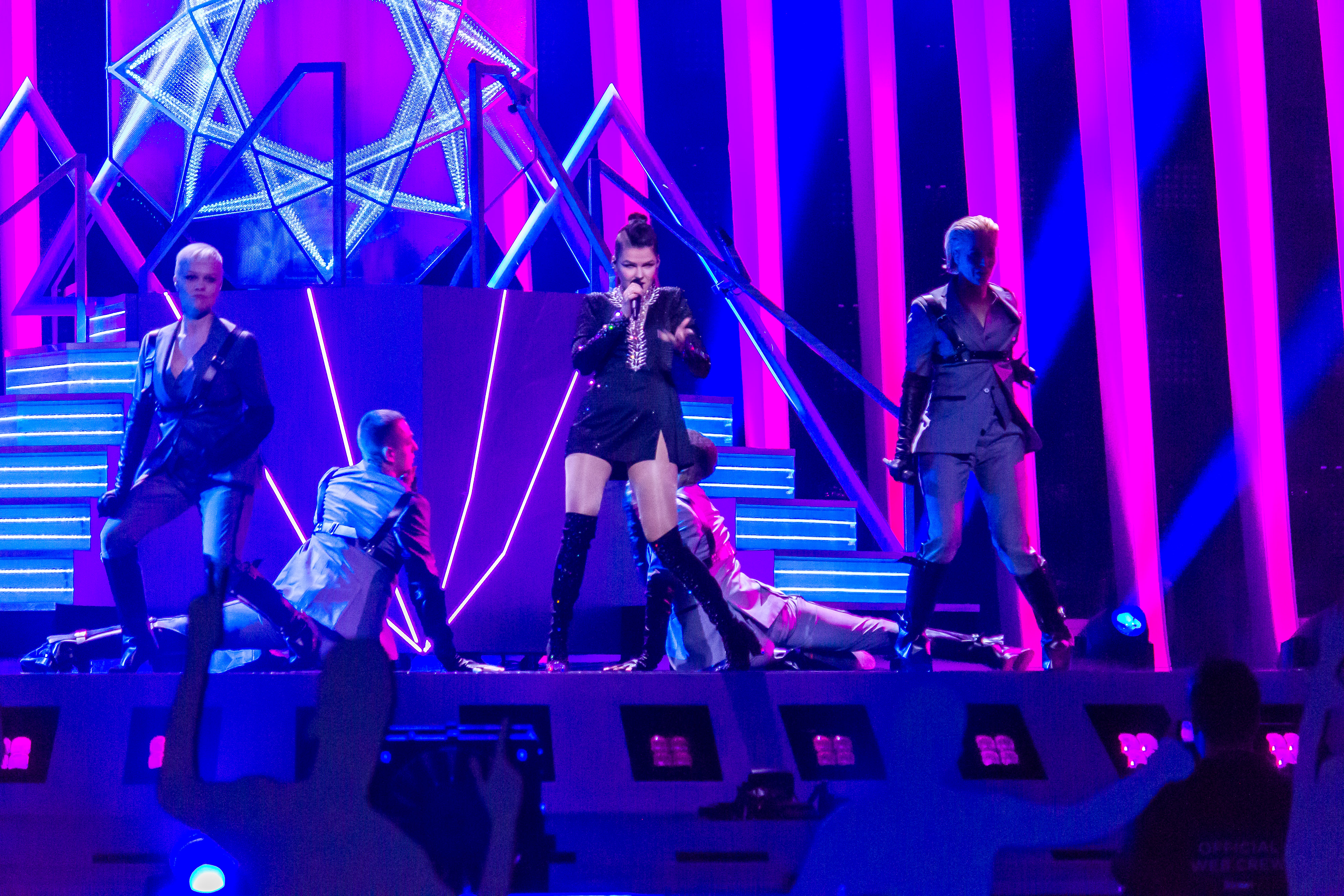 Saara Aalto representing Finland with the song "Monsters" during a rehearsal before the first semi final of the Eurovision Song Contest 2018 in Lisbon.